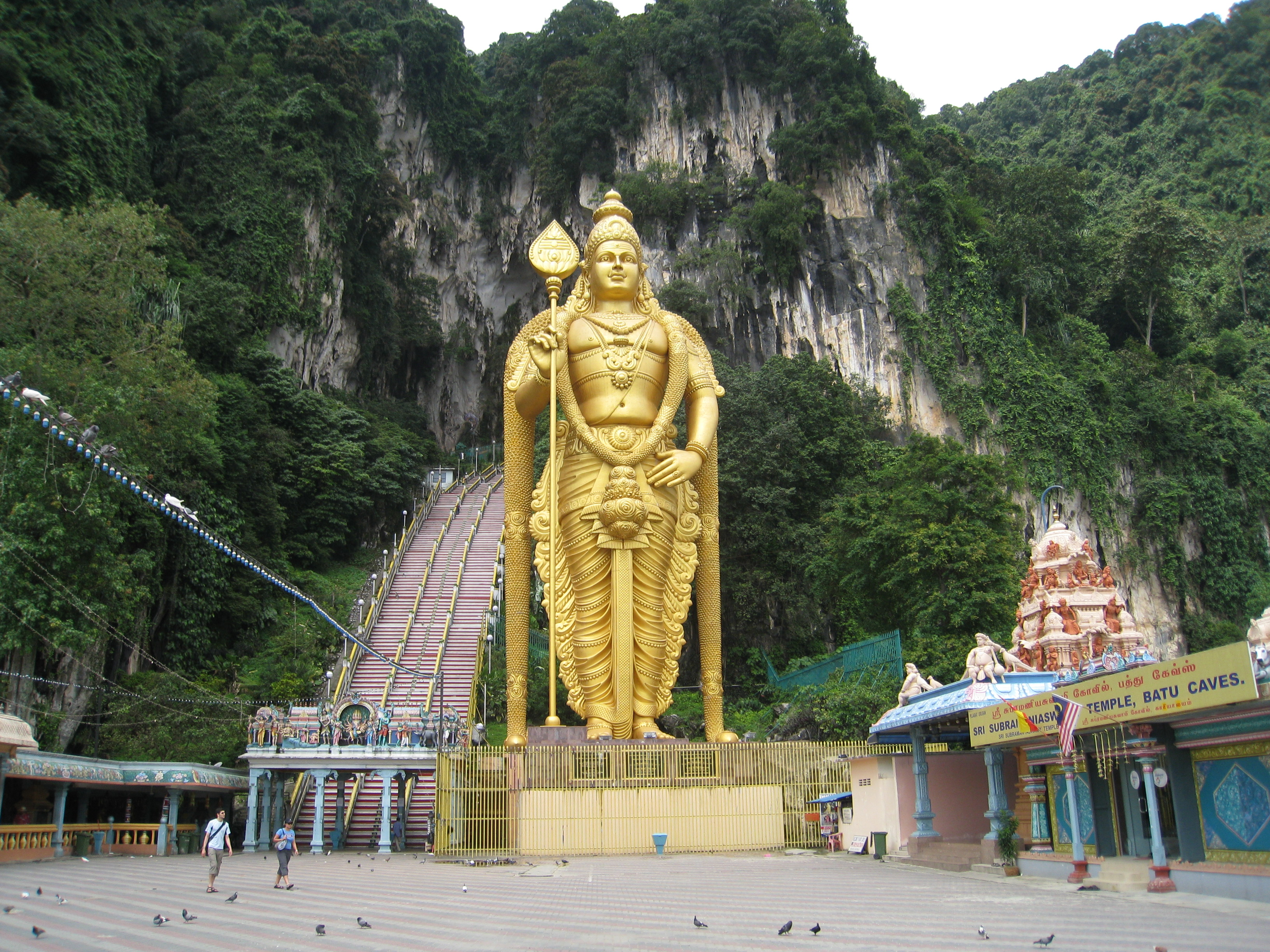 The Batu Caves in Malaysia, a pilgrimage site dedicated to Sri Murugan